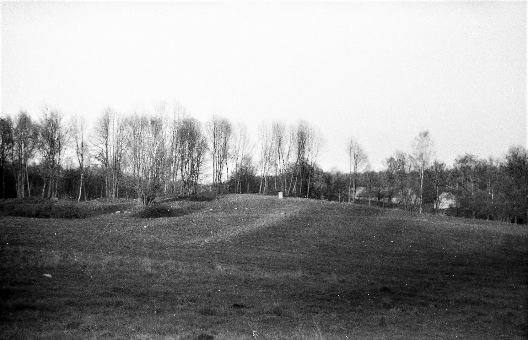 Kurmaičiai Hillfort, Kretinga district, Lithuania